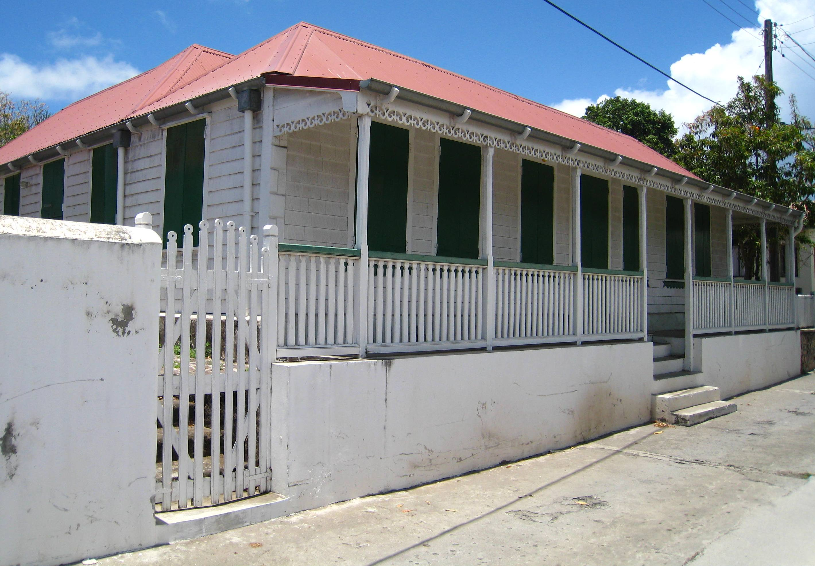 Administrator House, Oranjestad, Saint Eustatius (Neth. Antilles)